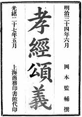 Publication by Okamoto Kansuke, before 1905